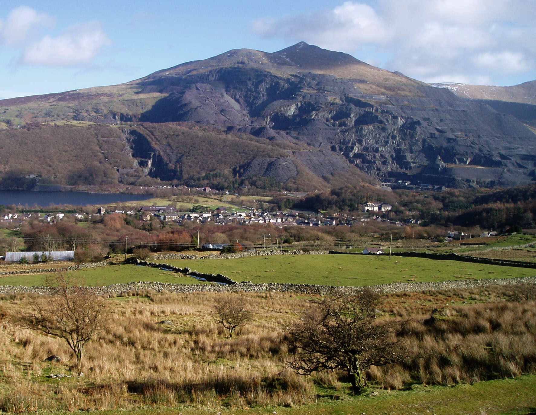 Elidir Fawr in Snowdonia, Wales, from the slopes of Moel Eilio.